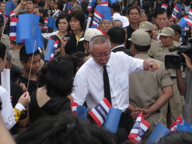 Sondhi Limthongkul, one of PAD leaders, in the funerfal of Ms. Ankana Radabpanyawut (อังคณา ระดับปัญญาวุฒิ) - the victim of October 7 Incedent, at Wat Sri Prawat, Nontaburi on October 13, 2008.